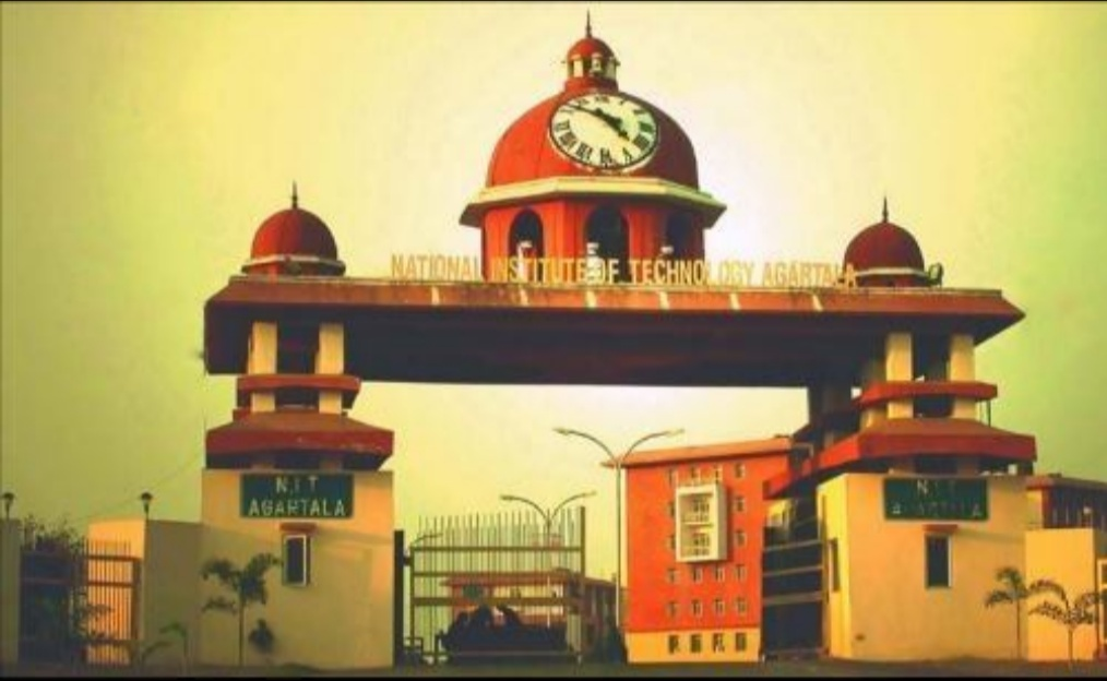 NIT Agartala main gate